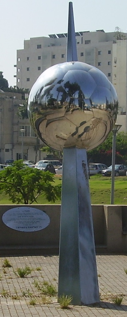 Israeli footballer Moti Kind memorial in Rehovot